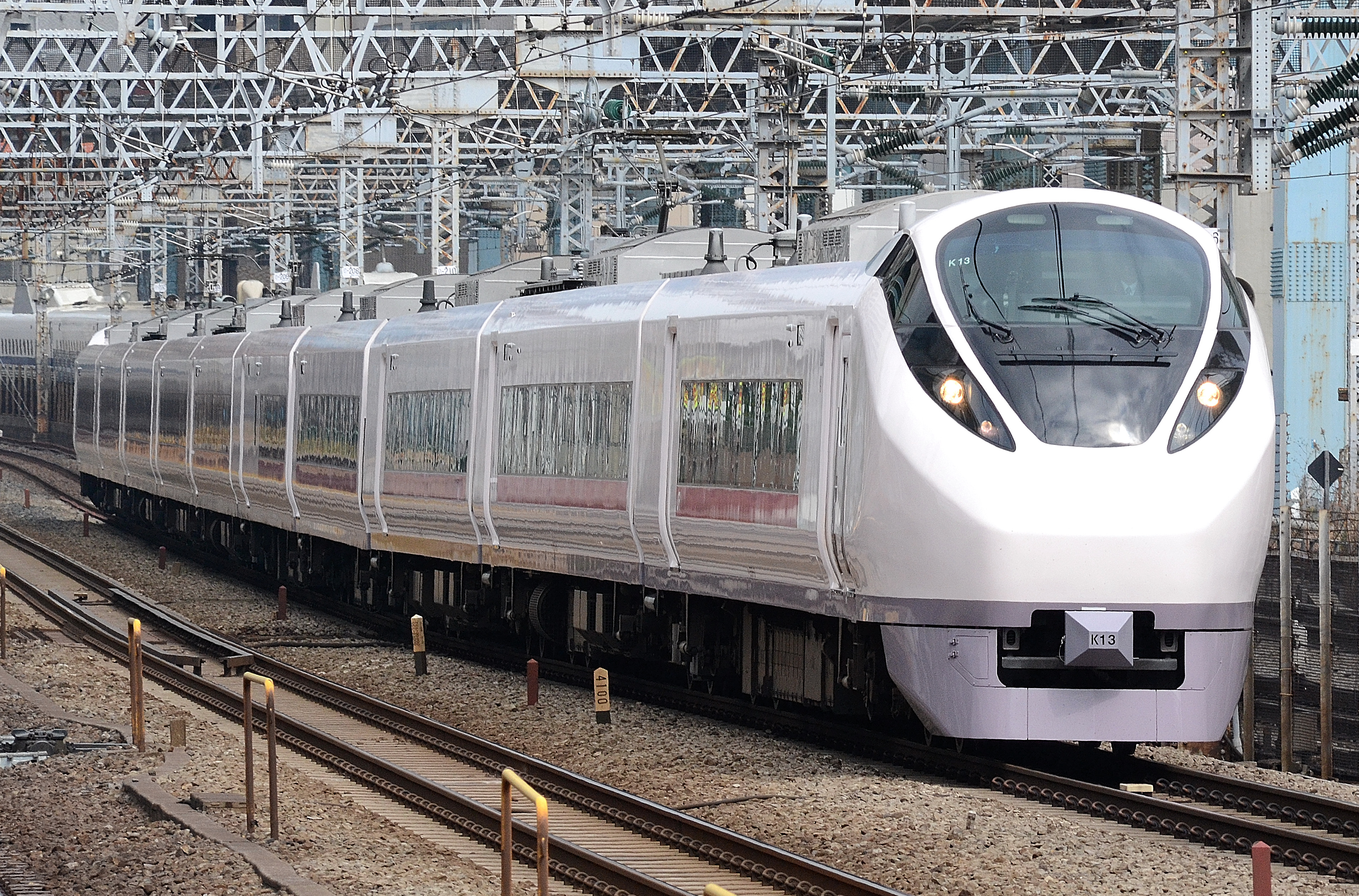 JR East E657 series EMU set K13 passing Tamachi Station on a Joban/Ueno-Tokyo Line through service to Shinagawa